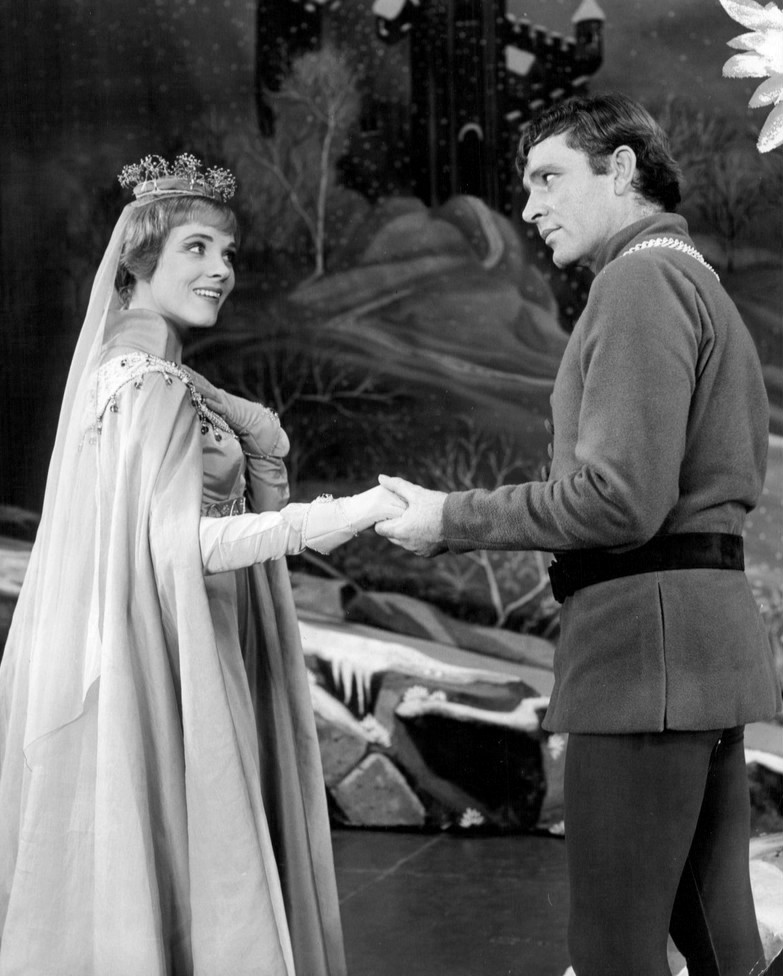 Photo of Julie Andrews as Queen Guenevere and Richard Burton as King Arthur from the Broadway production of Camelot.